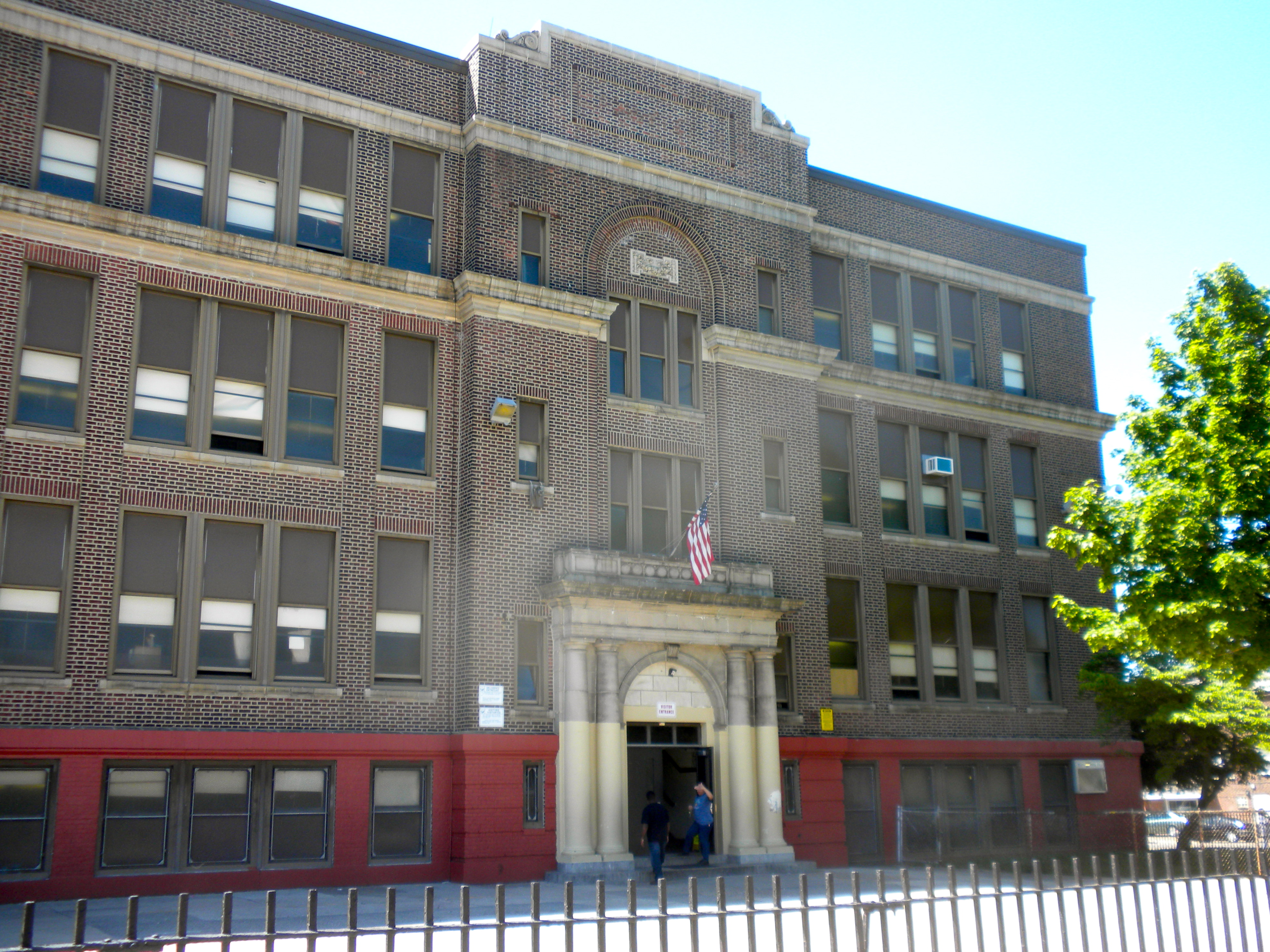 Mann Elementary School, formerly the William Mann School, on NRHP since November 18, 1988. At 5376 West Berks Street in Wynnefield neighborhood of West Philadelphia.